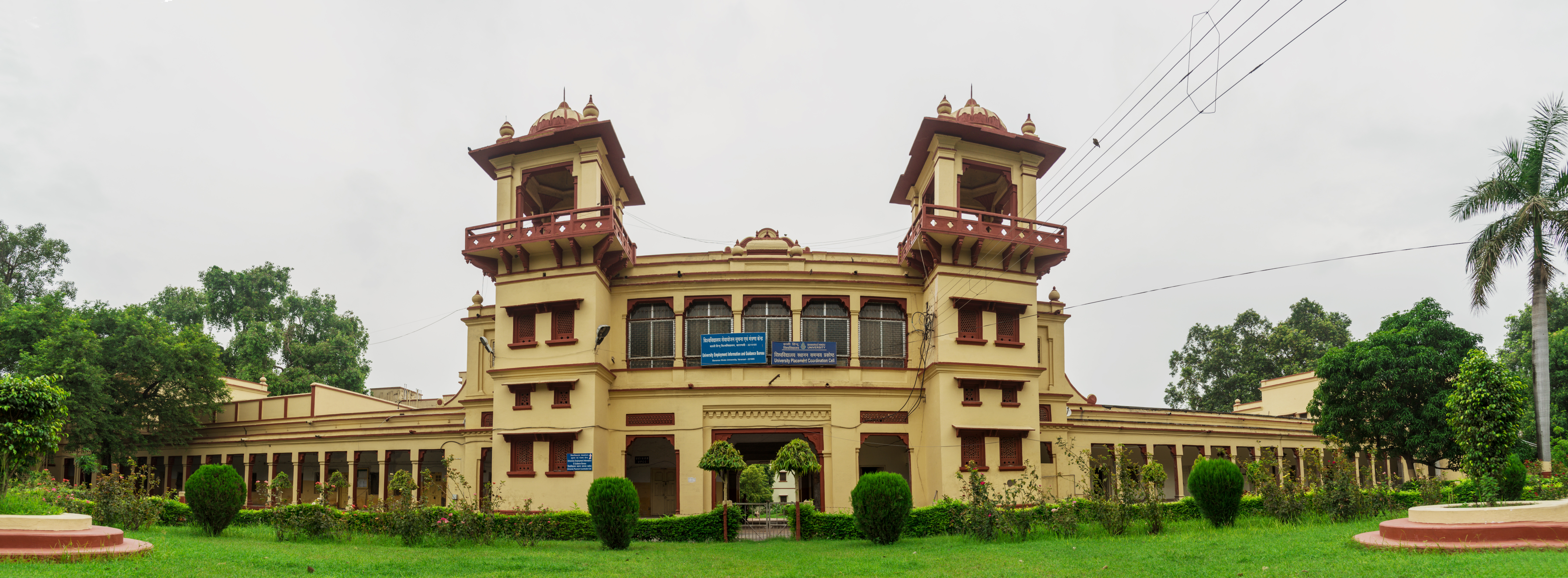 Birla Hostel, BHU